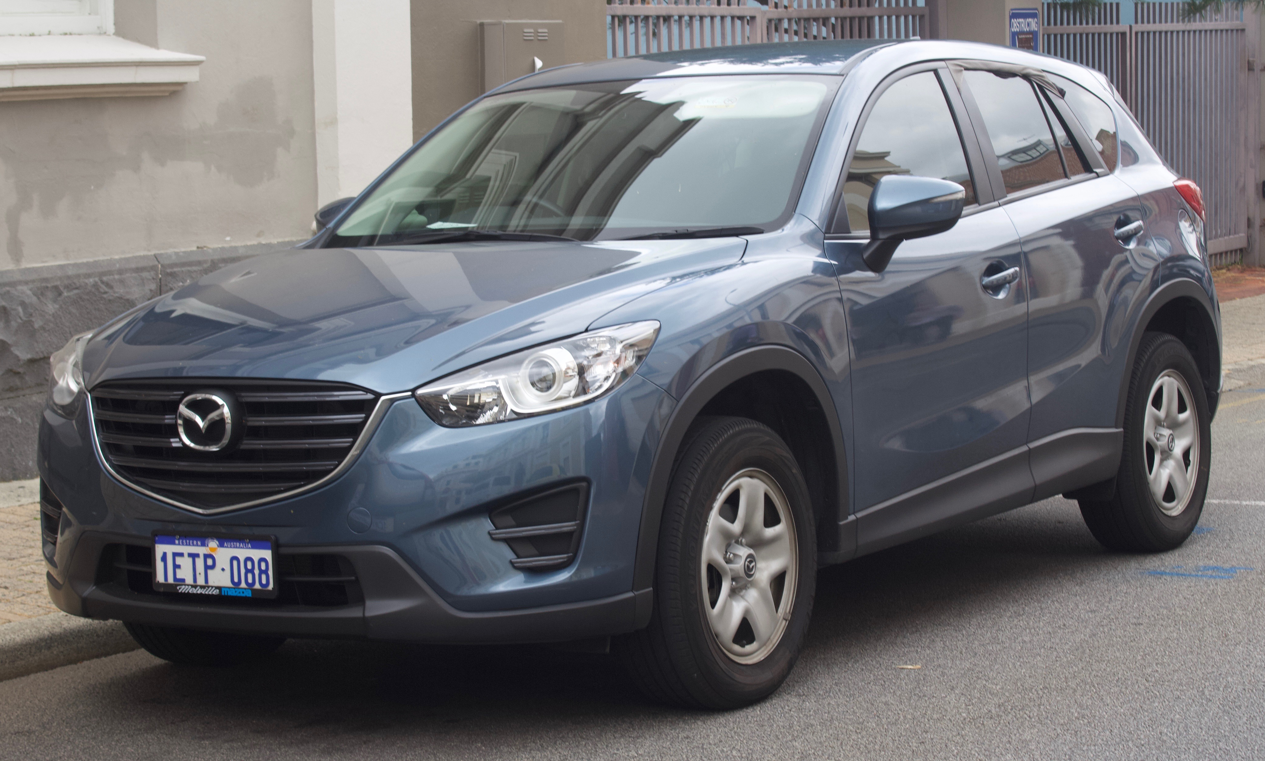 2015 Mazda CX-5 (KE MY15) Maxx wagon. Photographed in Fremantle, Western Australia, Australia.